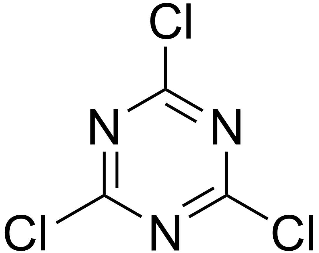 chemical structure of cyanuric chloride